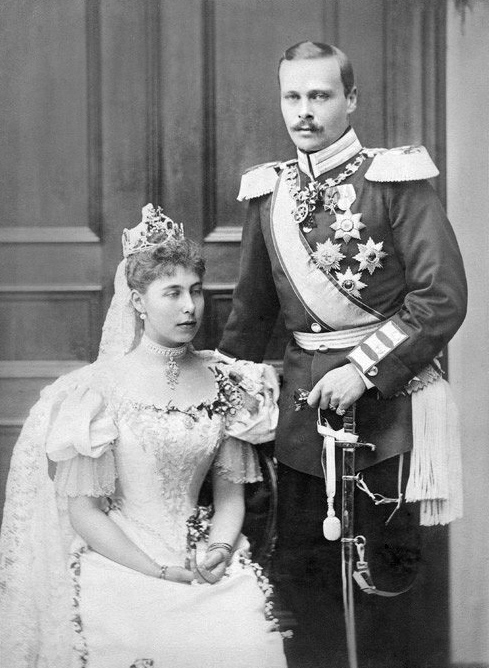 Princess Victoria Melita of Saxe-Coburg and Gotha and Ernest Louis, Grand Duke of Hesse at their marriage in 1894